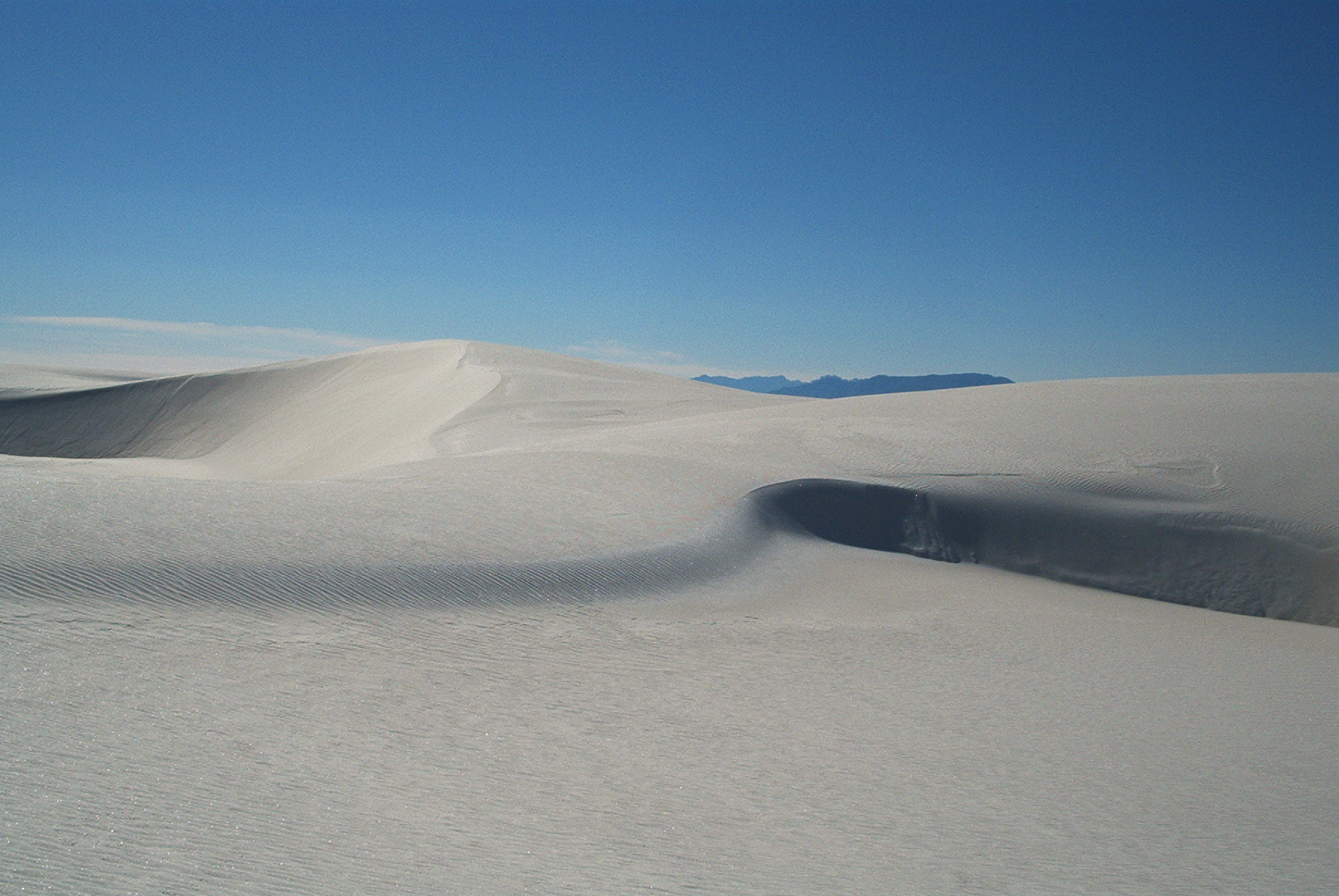 Dunes at White Sands National Monument, New Mexico, USA.